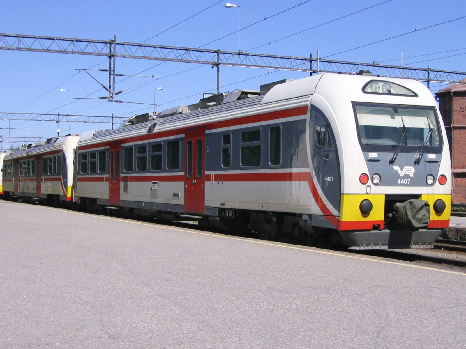 Finnish Railways (VR) dieselhauled motorcar Dm12 4407 in Joensuu, Finland.